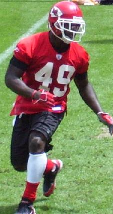 Bernard Pollard, safety with the Kansas City Chiefs.